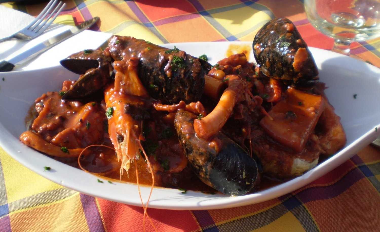 Cacciucco, famous Italian dish from Livorno Photo by myself